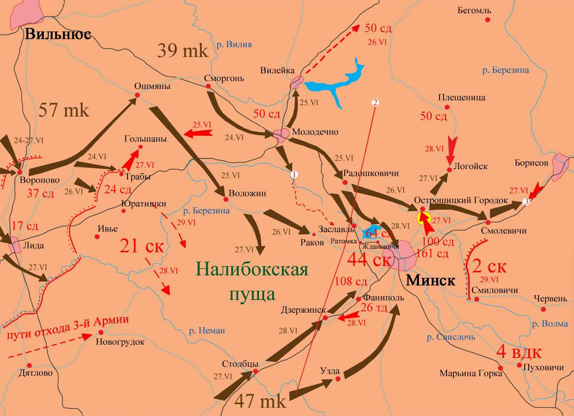 The Break of the Hoth's 3rd Panzer Group toward Minsk, June 24-28, 1941